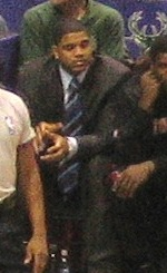 New York Knicks basketball player Maurice Taylor sits on the bench in 2006 as an inactive player.